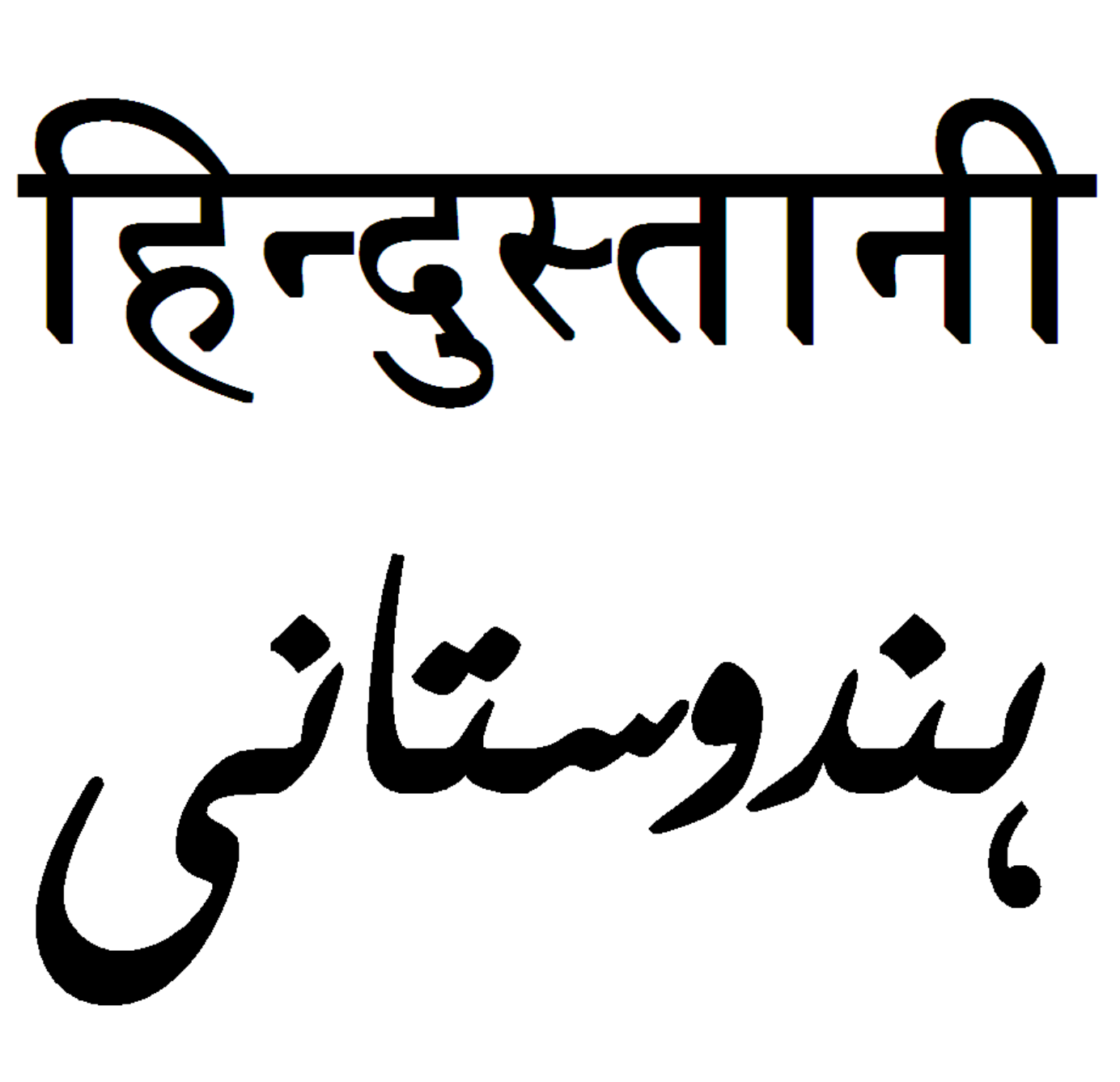 This is what the script looks like.